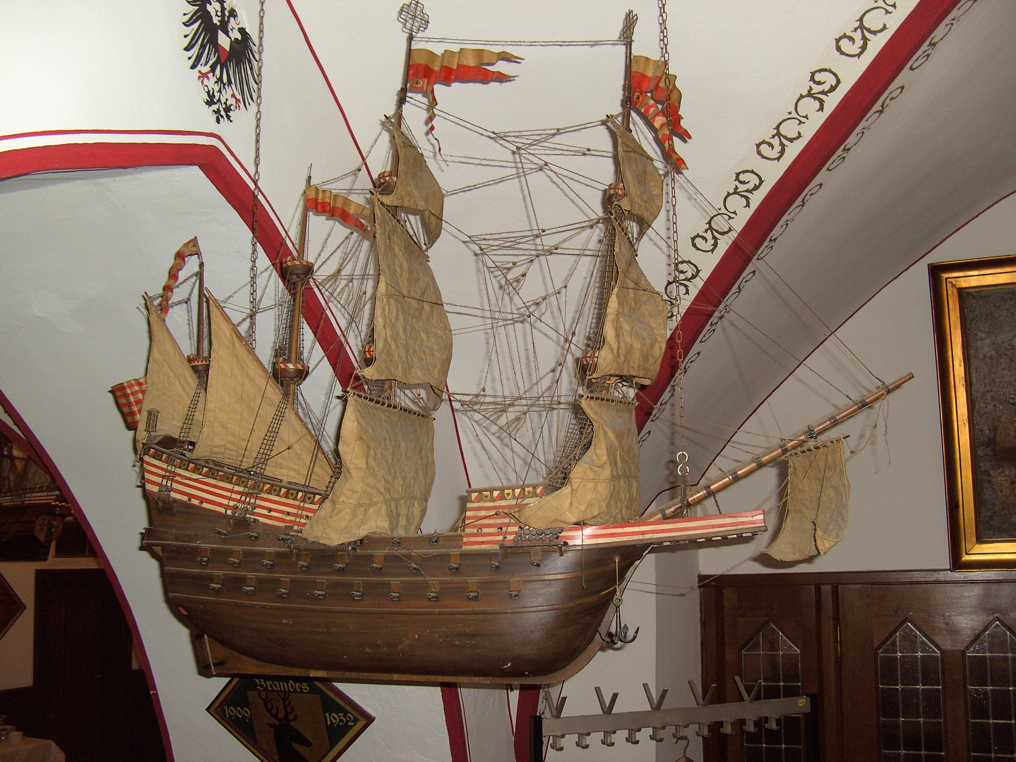 Hanseatic league flagship Adler von Lübeck (1567-88)